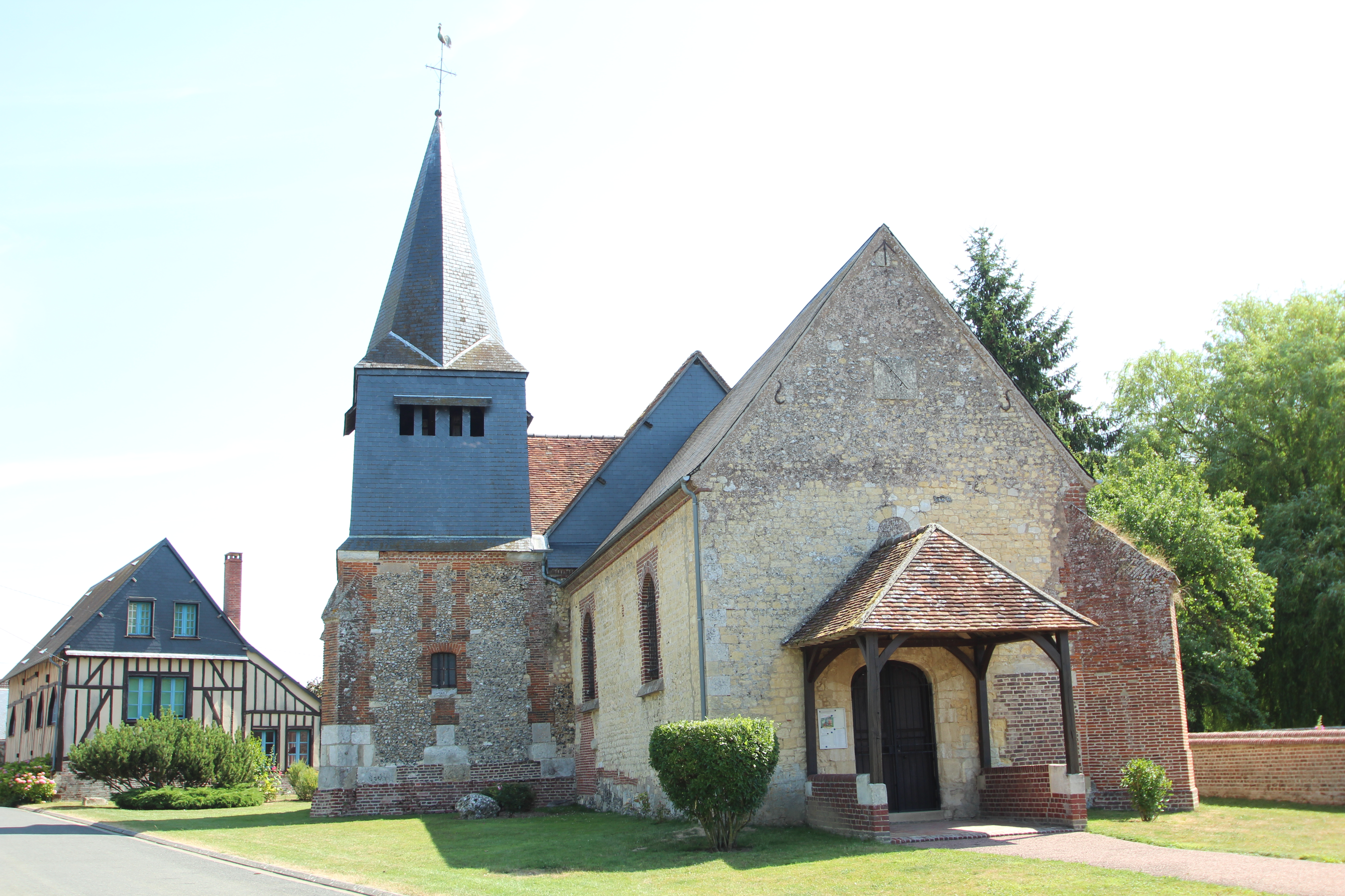 Saint Lucian church in Fontaine-Saint-Lucien, France This image was uploaded as part of L'Été des villes 2015.